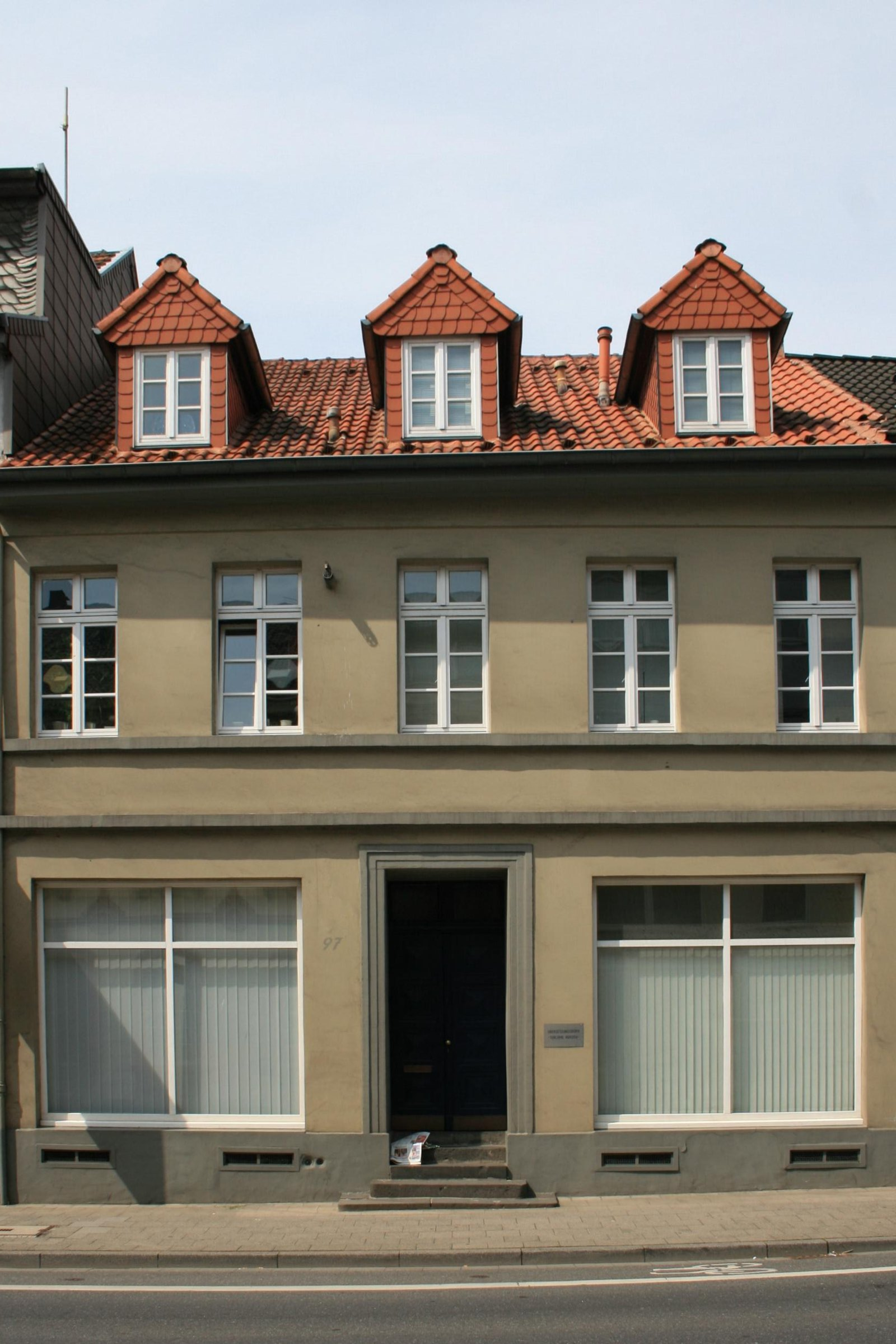 Cultural heritage monument No. F 014 in Mönchengladbach